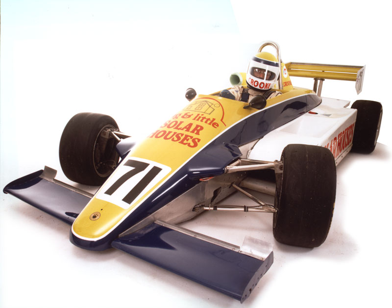 A Mk 8 Cheetah